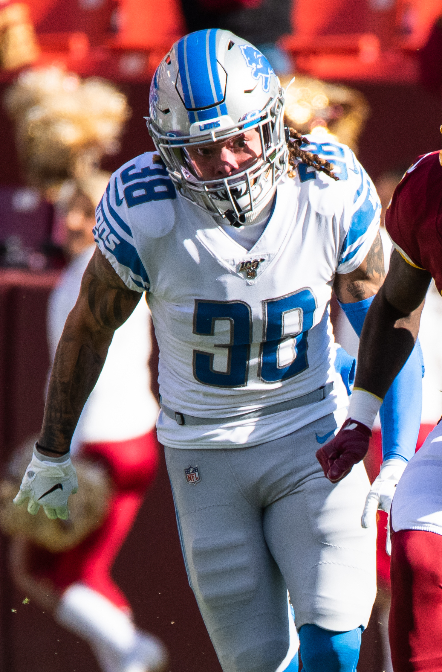 In 2019